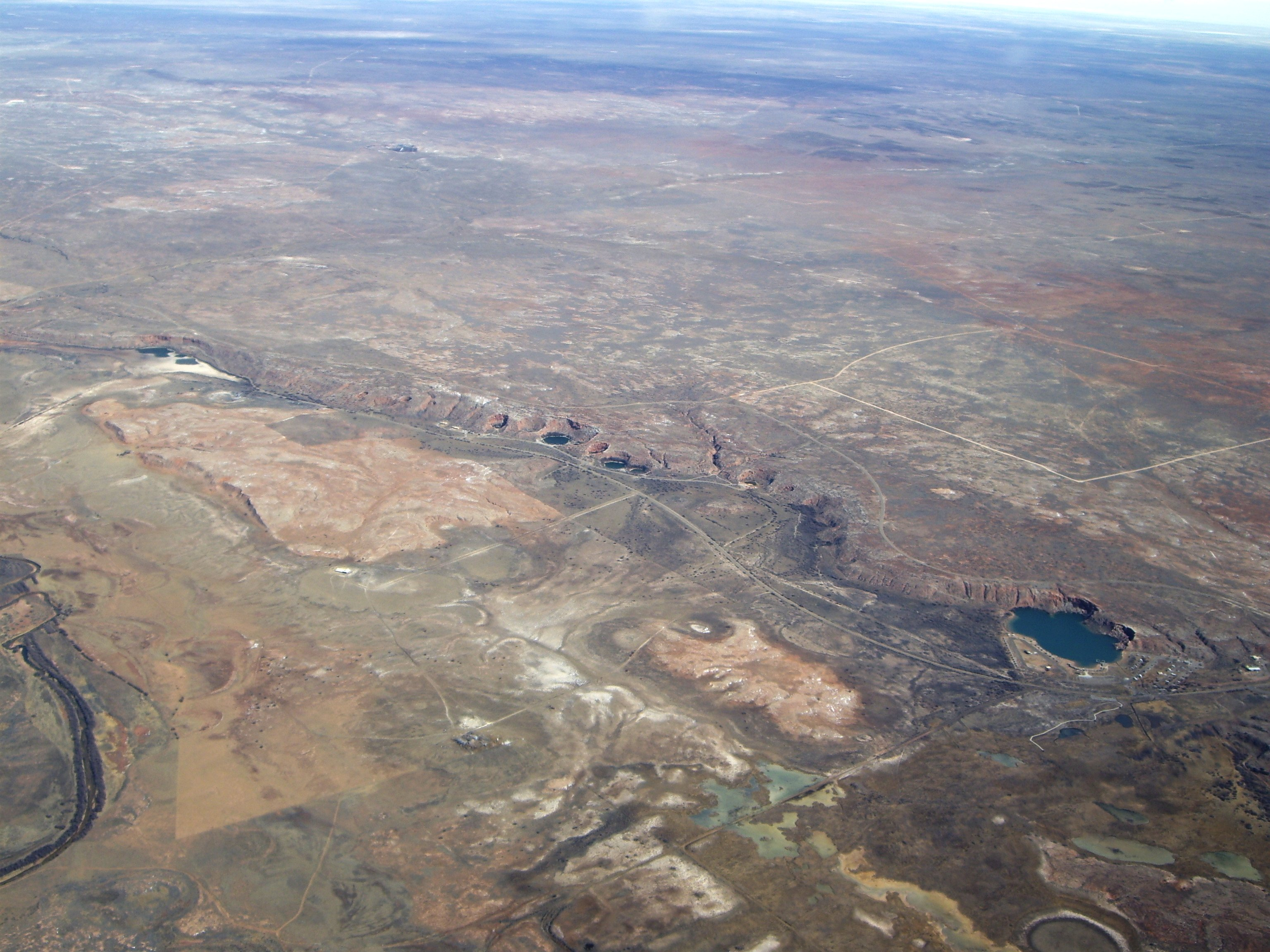 An aerial view of the Bottomless Lakes State Park near Roswell NM